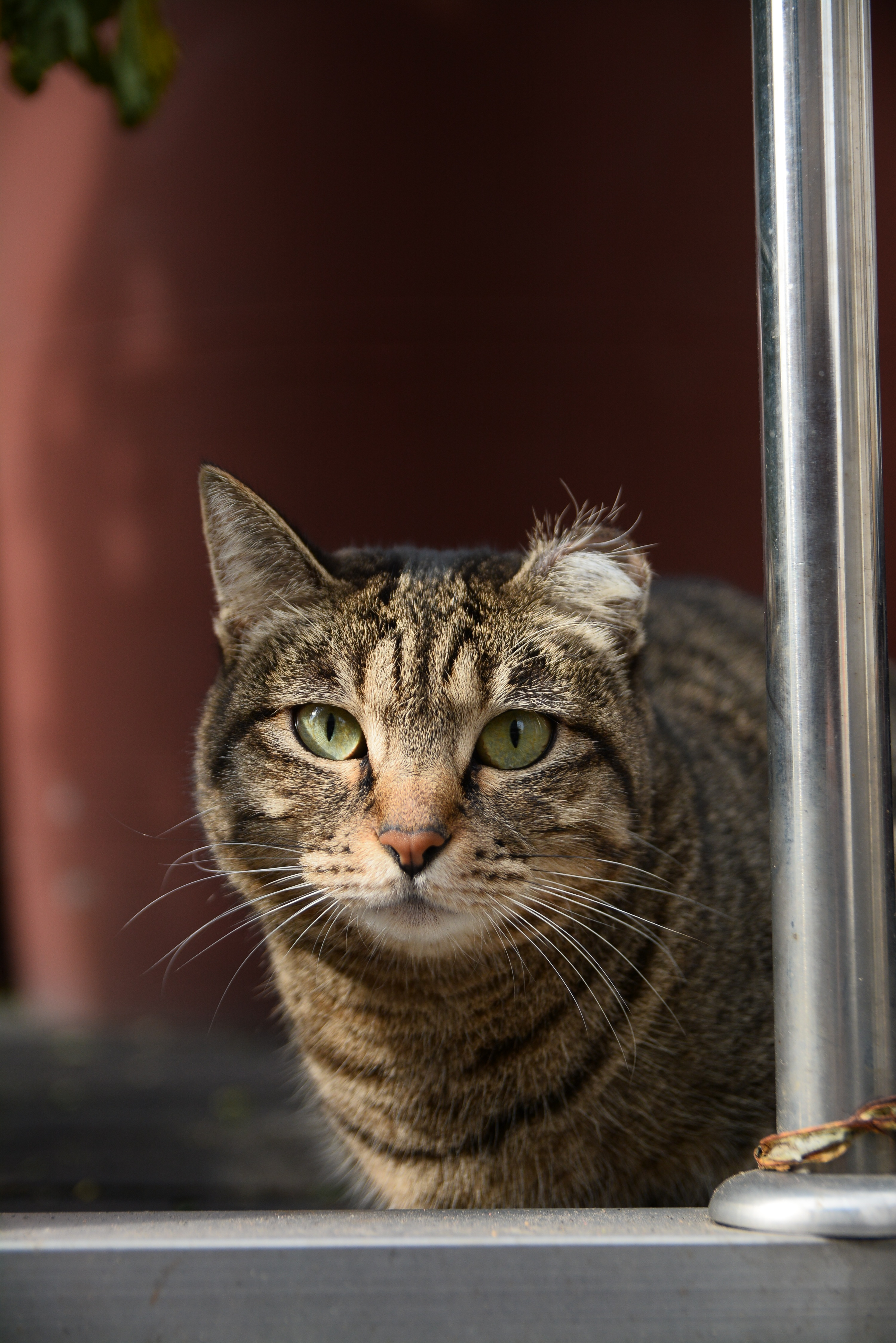 Feral cat with the tip of its left ear removed to indicate it has been trapped and neutered.